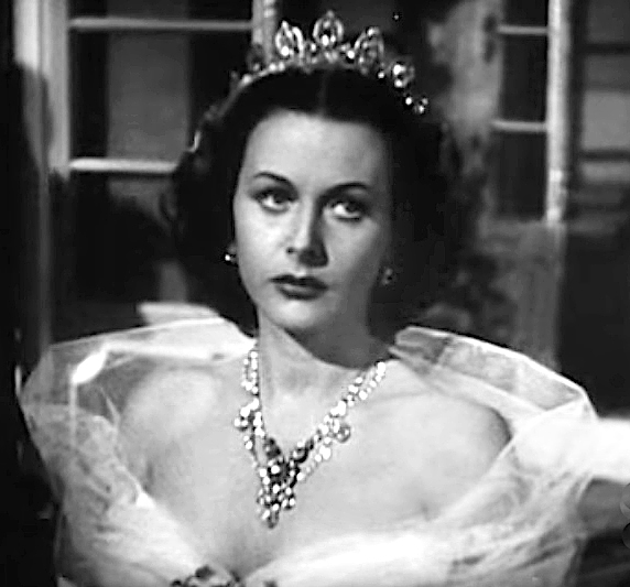 Cropped screenshot of Hedy Lamarr from the trailer for the film Her Highness and the Bellboy